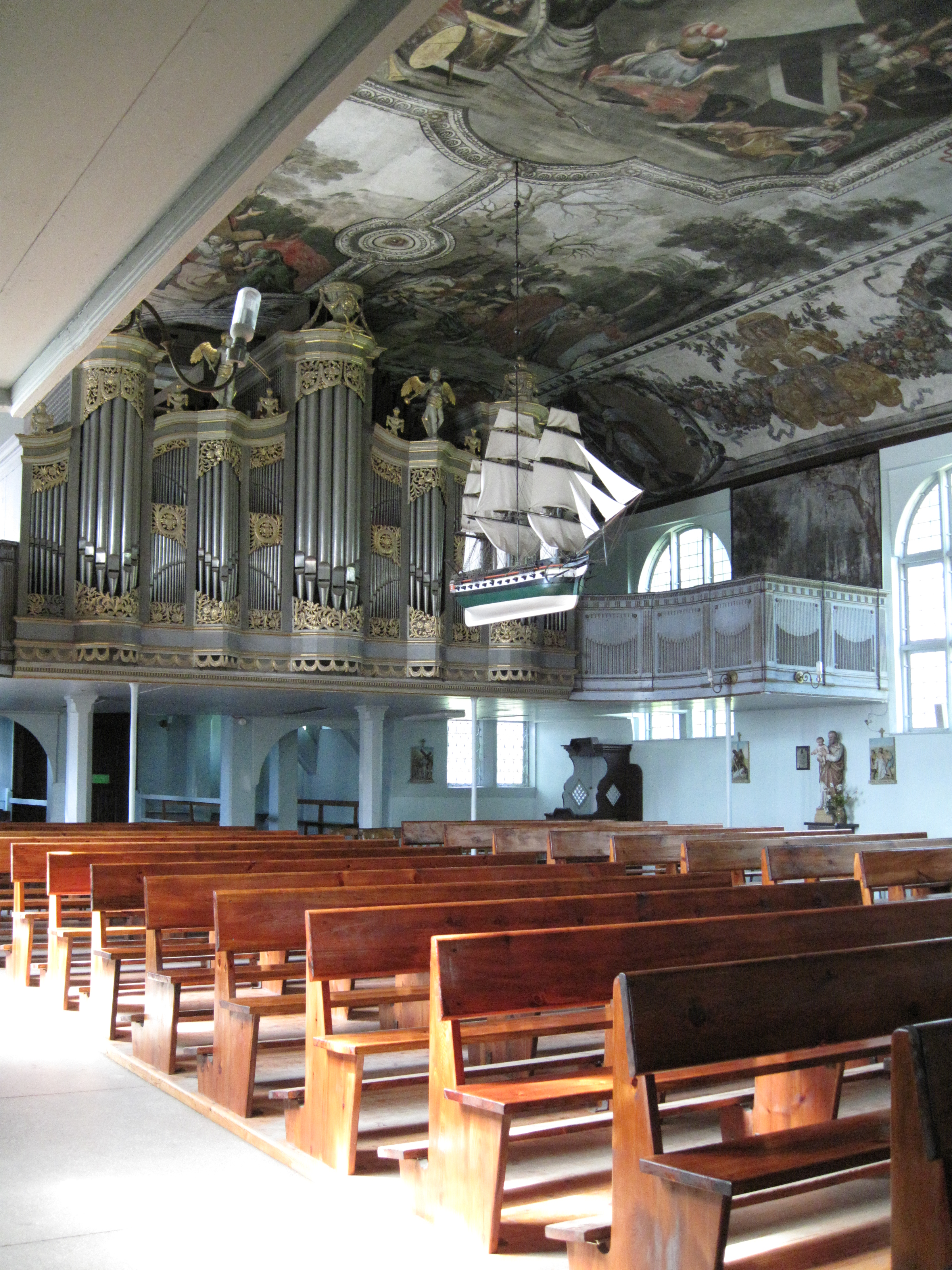 Stegna - church.